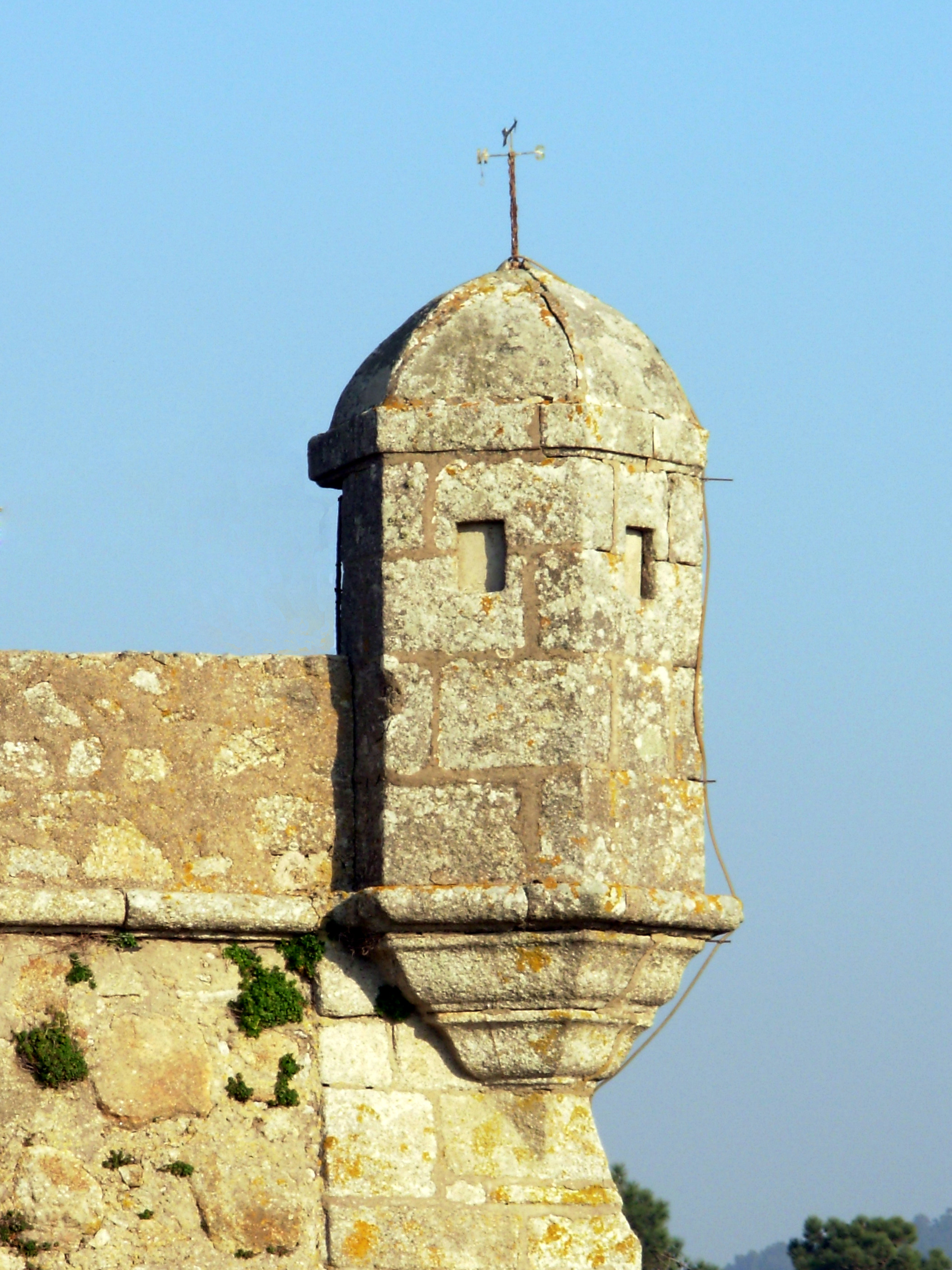 Bartizan at Sentry box, São João Batista de Esposende Fort, Portugal